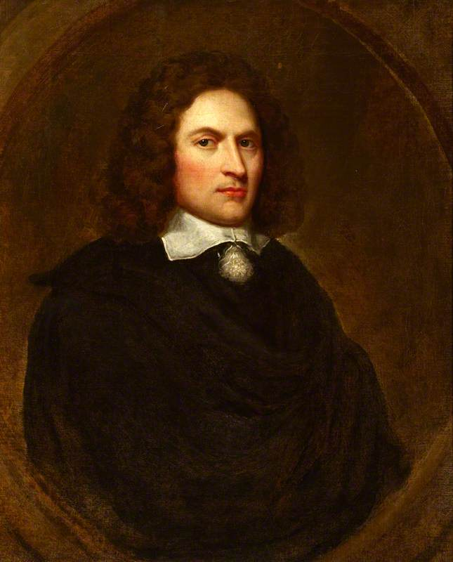 Portrait of Richard Wiseman (c.1622–1676), English surgeon.